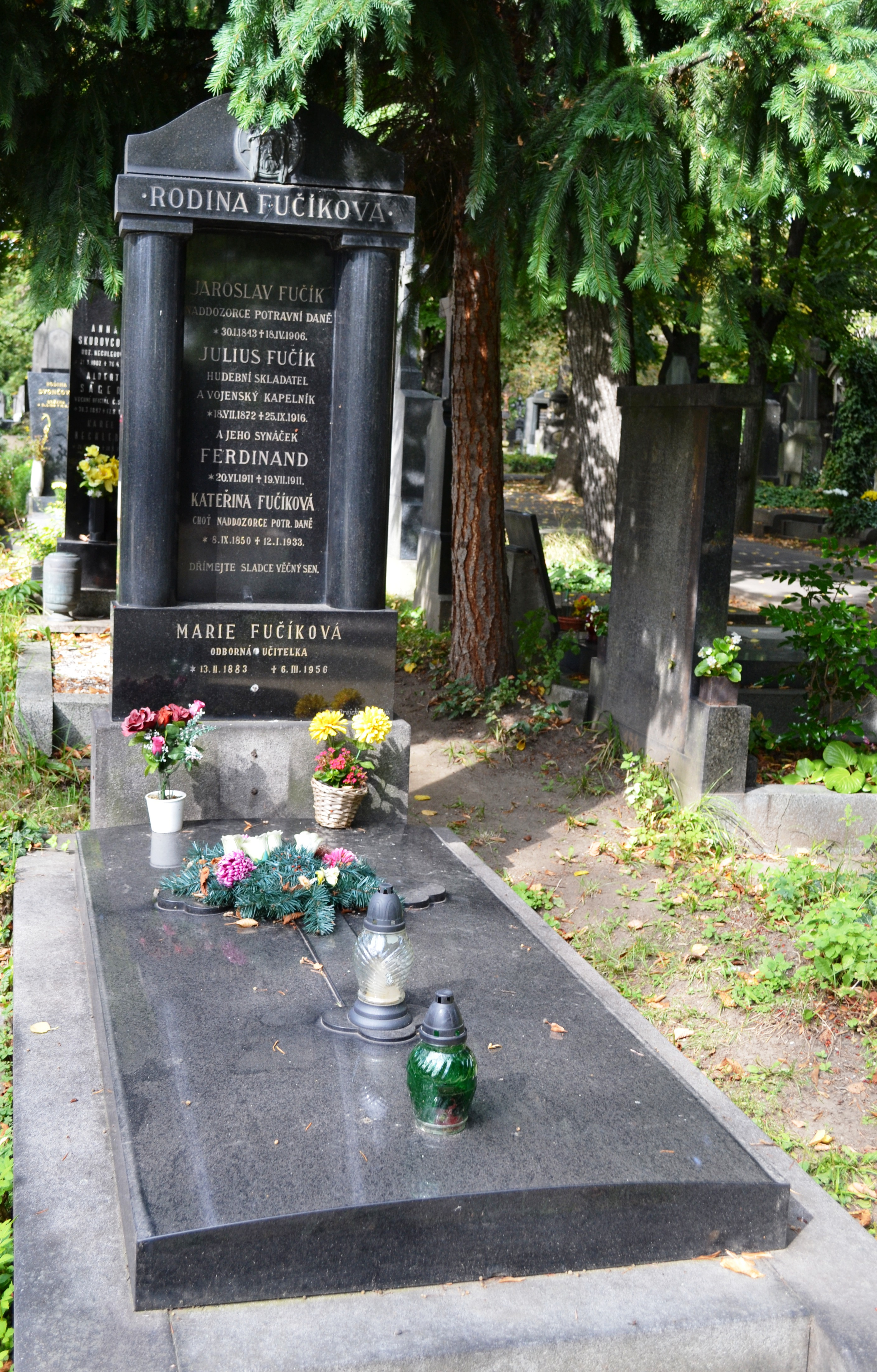 Julius Fučík (1872–1916), Czech composer and military bandleader